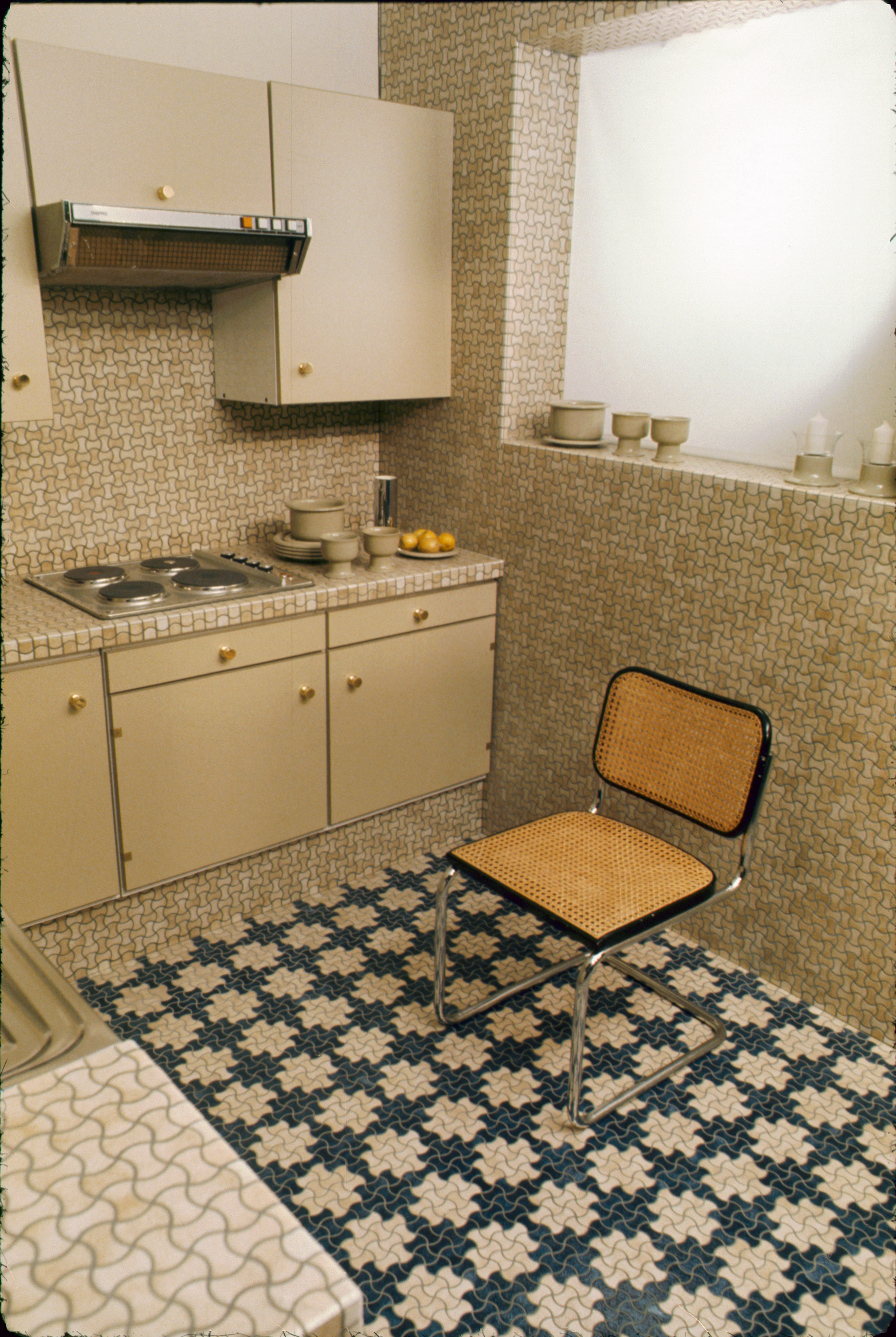 Kitchen from the 70s in Triton shape from émaux de Briare.